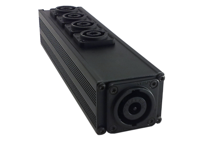 Speakon Distributor ( Splitter / Verteiler ) Input 1x NL8MPR-BAG 8pol ( 1+/1- 2+/2- 3+/3- 4+/4-) to Output 4x NL4MP ( wiring 4pol each 1+/1-) Usage: events, stage, theater, speaker connections ( multicores )